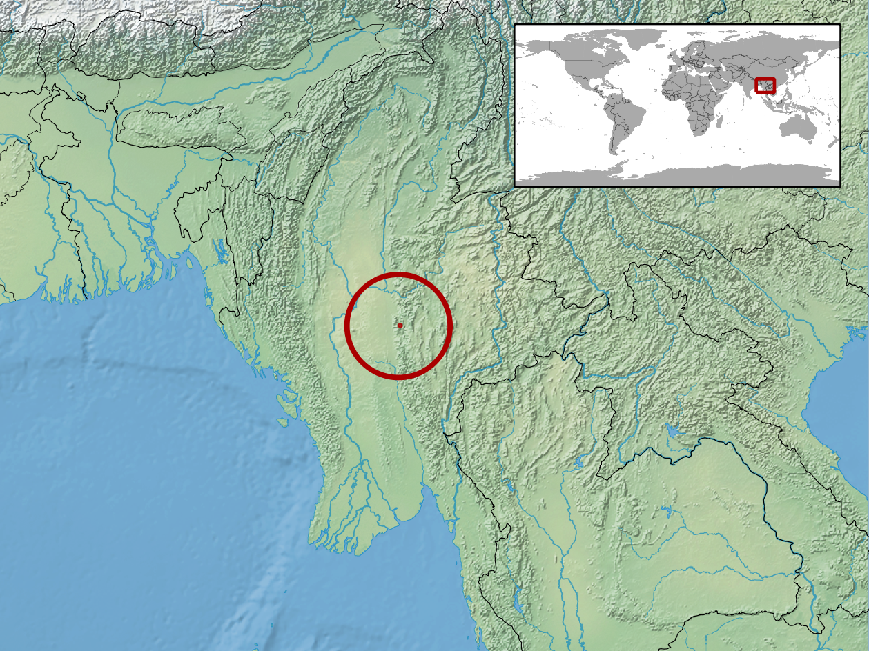 geographic distribution of Cyrtodactylus chrysopylos (Native: Myanmar)